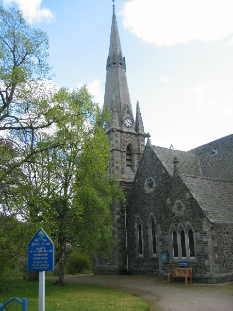 Braemar Parish Church. Found right on the edge of the grid square.